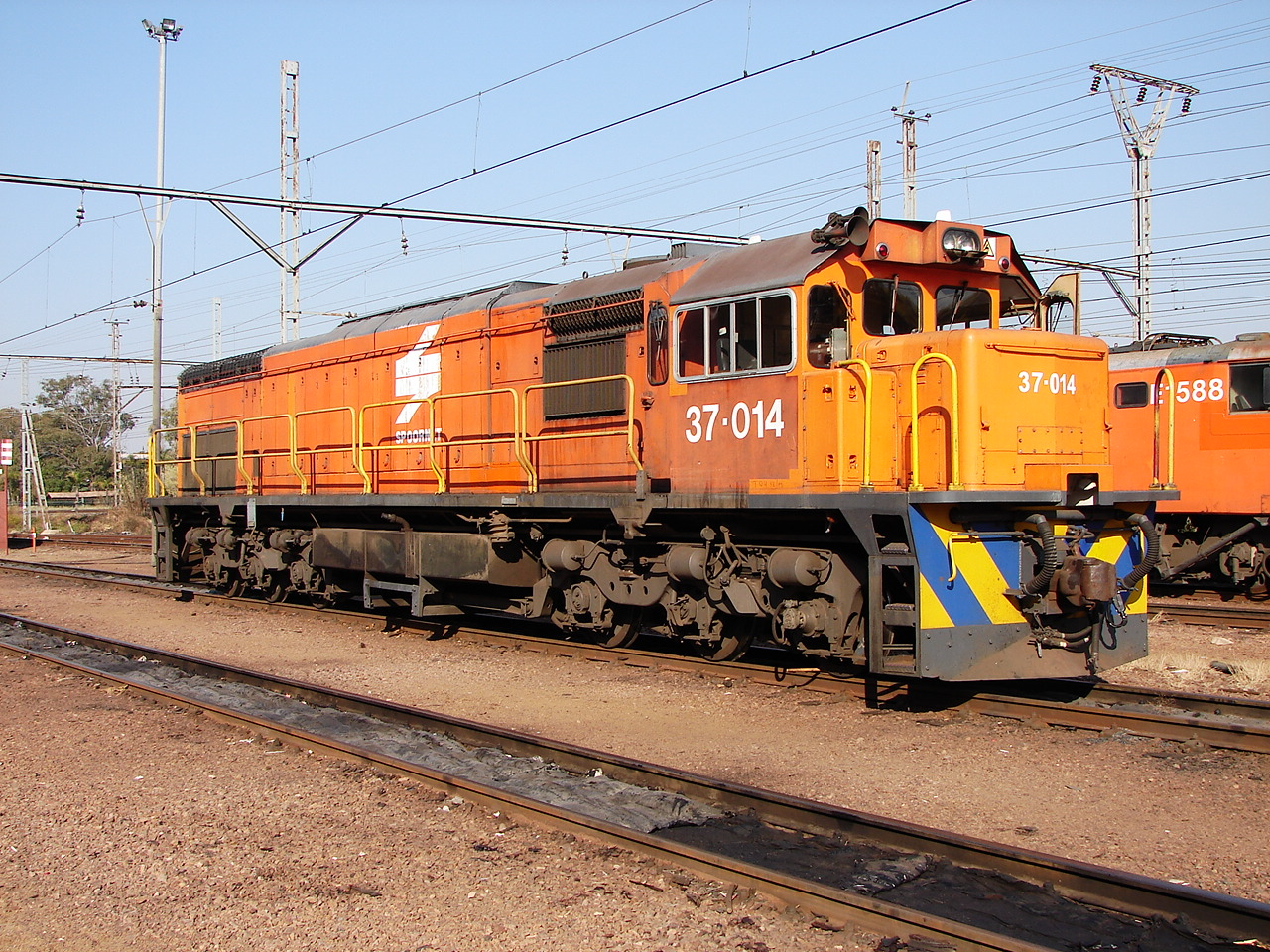 South African Class 37-000 37-014Builder's Number: GMSA 116-14Type: EMD GT26M2CLocation: Capital Park, Pretoria, Gauteng